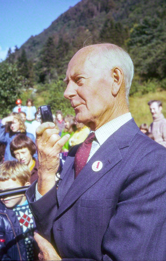 Einar Gerhardsen, former Prime Minister of Norway. At a rally for the Norwegian Larbour party in Bergen in 1966 or later.